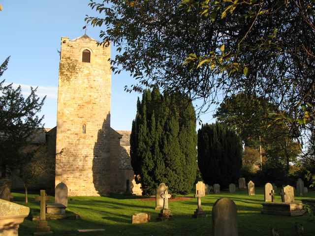 The churchyard of St. Michael's Church, Warden. Also shows another view of the (mostly) Saxon tower - see 1067006.